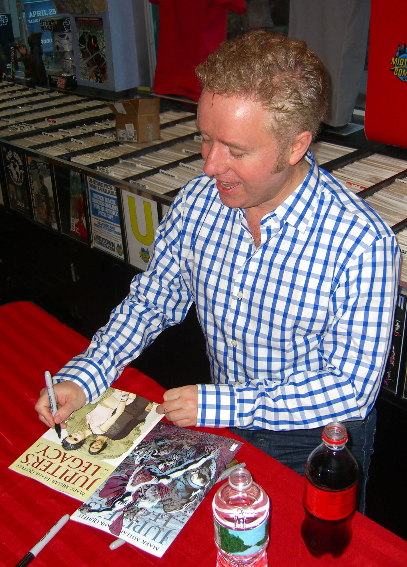 Scottish comics writer Mark Millar at an April 25, 2013 signing at Midtown Comics in Manhattan for his miniseries, Jupiter's Legacy, which debuted the day prior. This photo was created by Luigi Novi. It is not in the public domain, and use of this file outside of the licensing terms is a copyright violation.